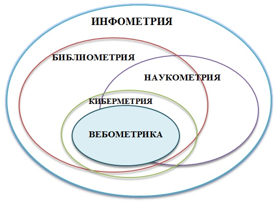 Informetrics